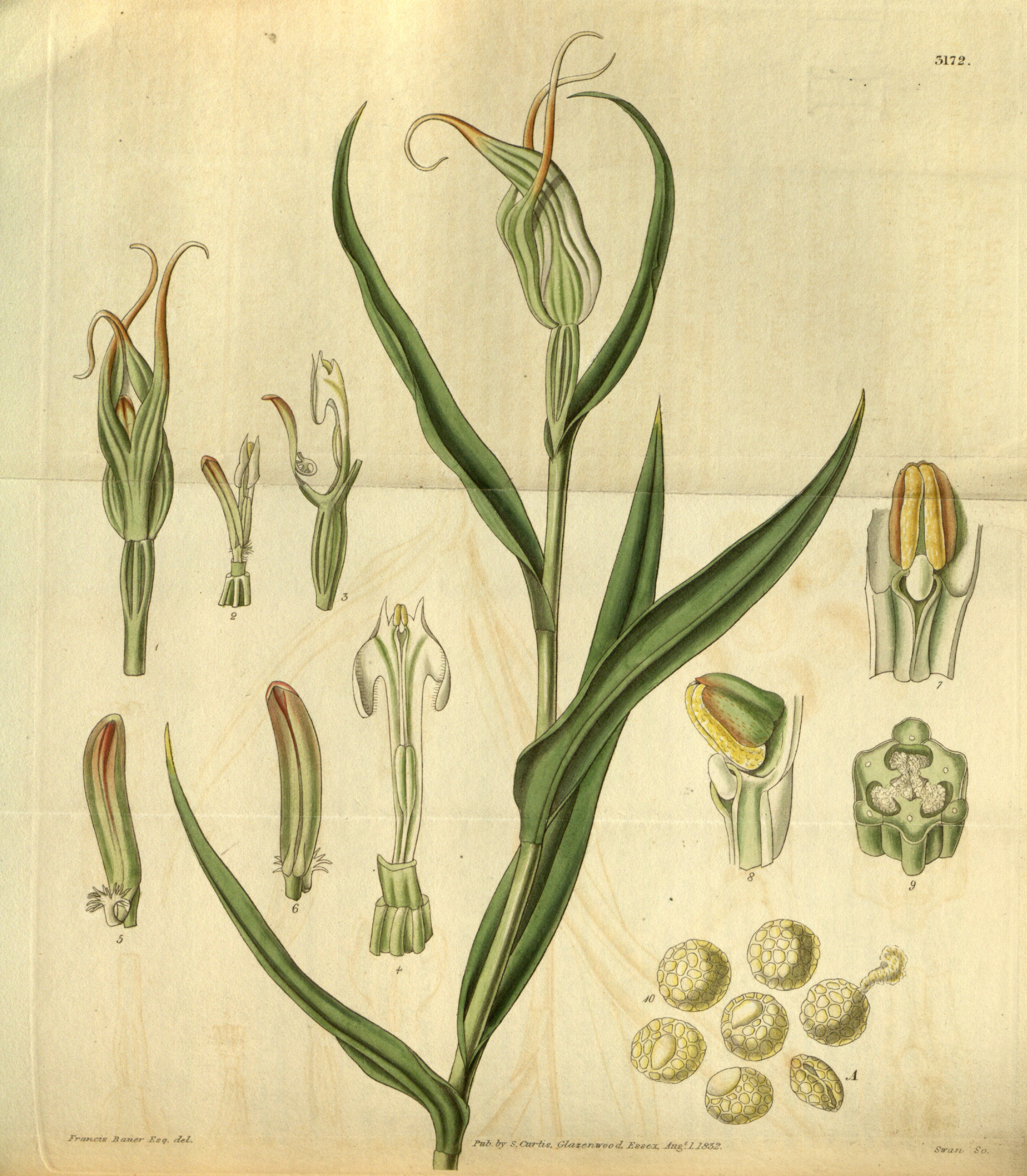 Illustration of Pterostylis banksii